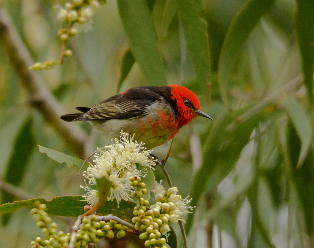 A male Scarlet Myzomela in Brisbane, Queensland, Australia.